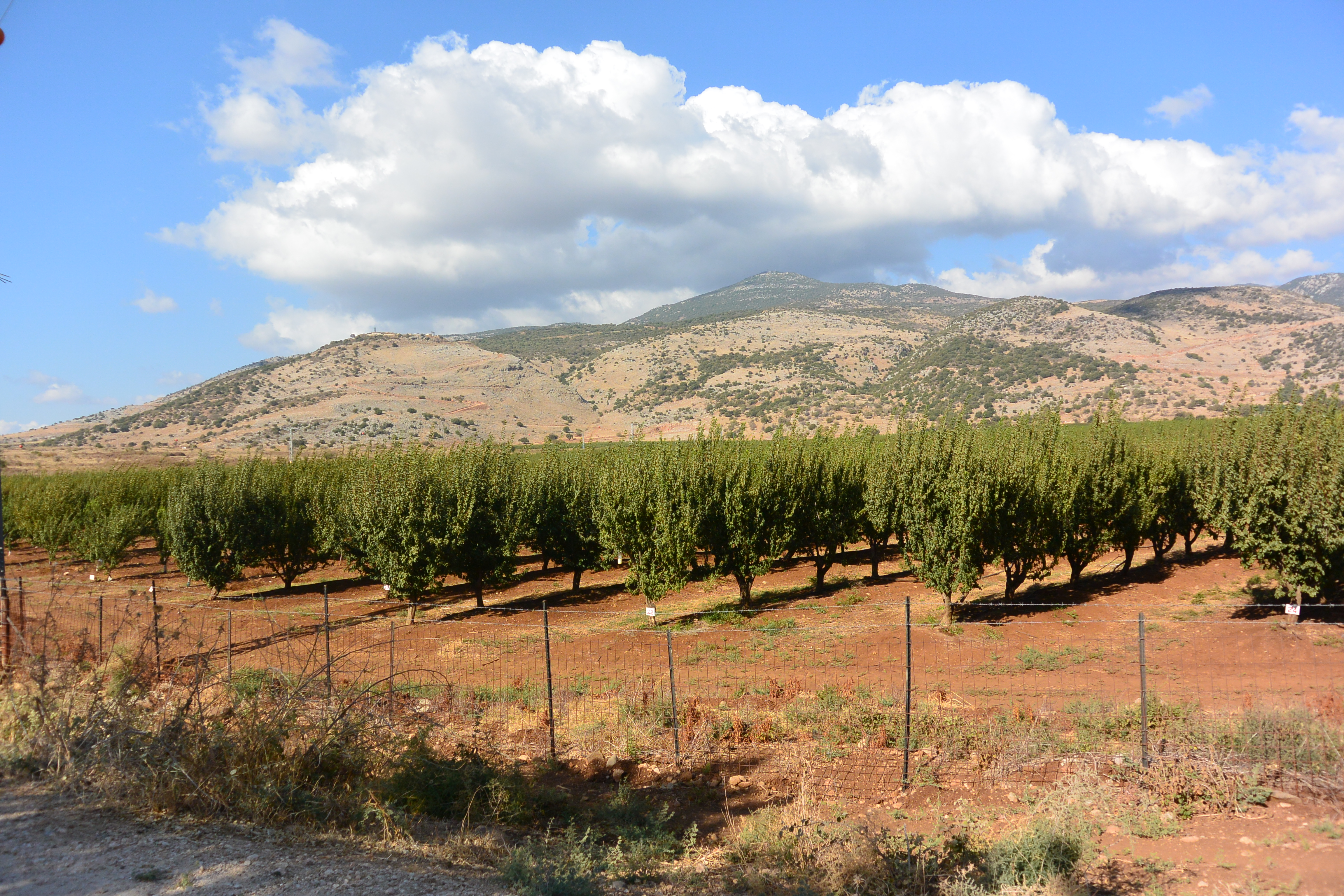 Farmland with Har Dov view (ca 1180m height) from north east side of Tel Dan.